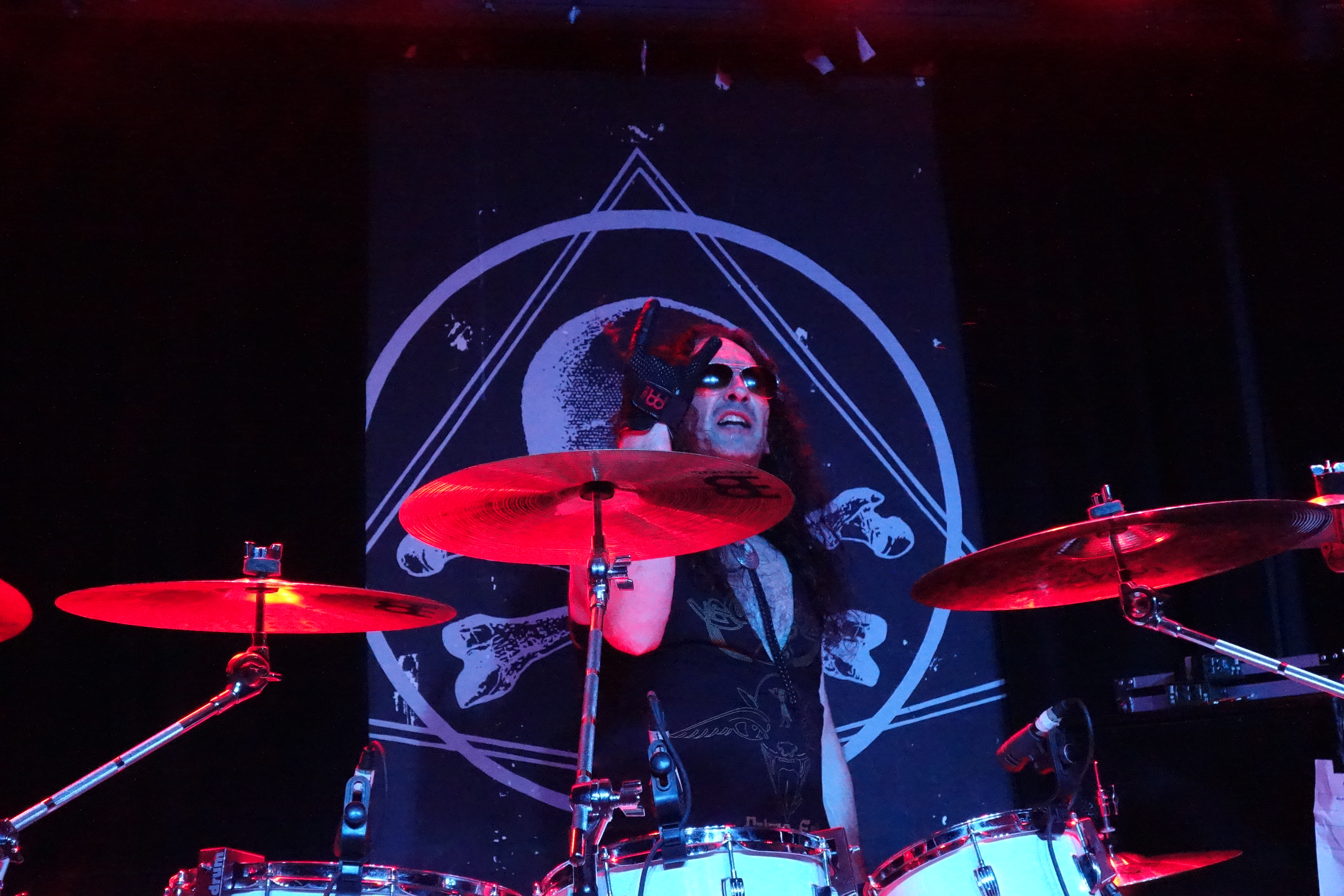 Venom Inc drummer Abaddon performing live in Brooklyn.